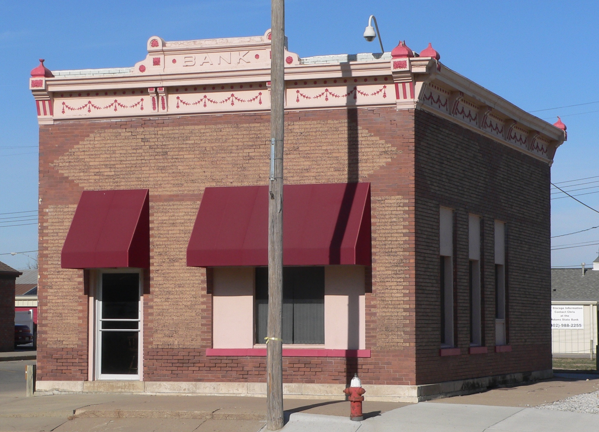 Farmers State Bank, located on north side of Main Street in Adams, Nebraska; seen from the southeast.